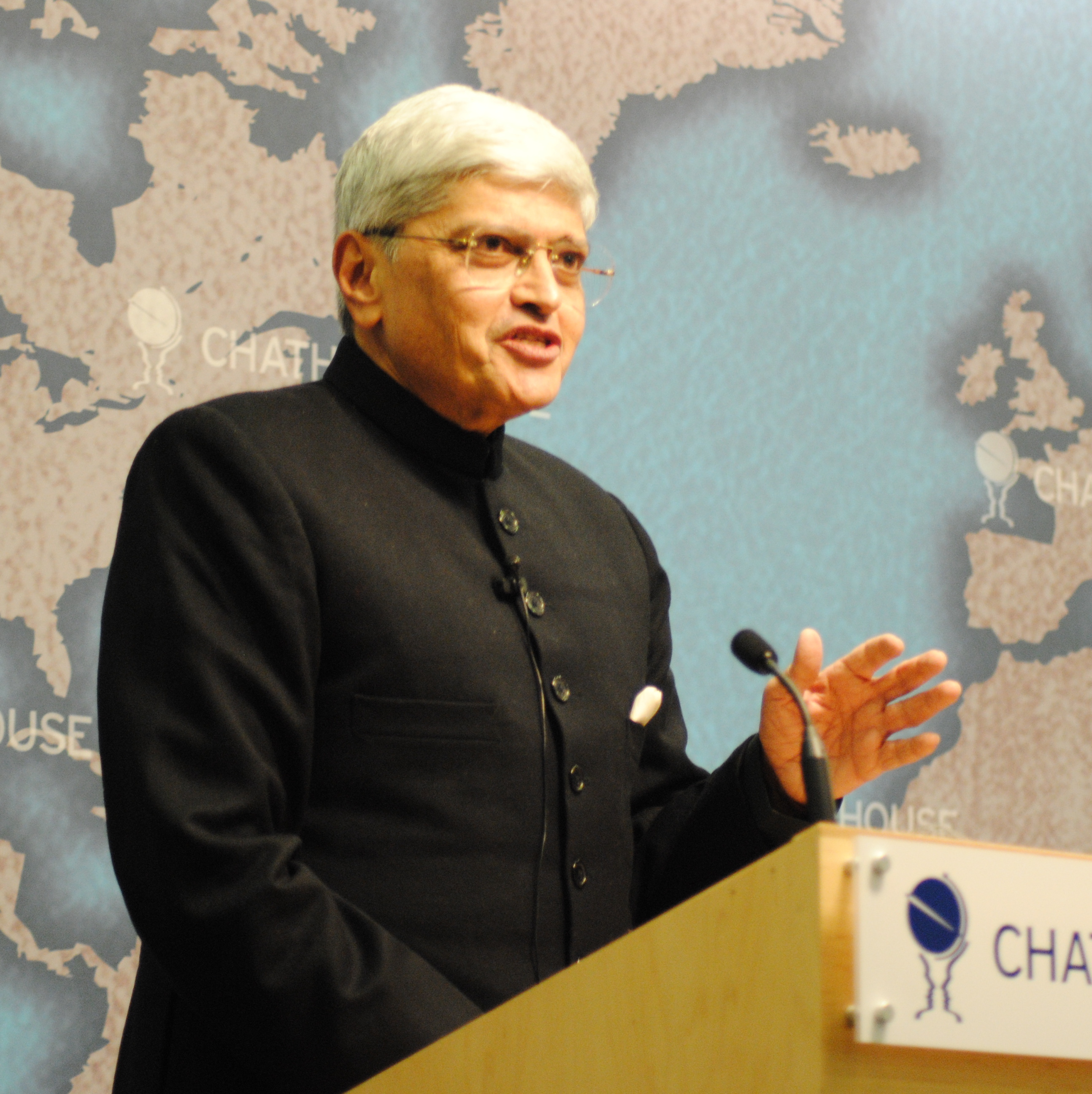 Gopalkrishna Gandhi presenting the Thirty First Jawaharlal Nehru Memorial Lecture at Chatham House on 24 November 2010.